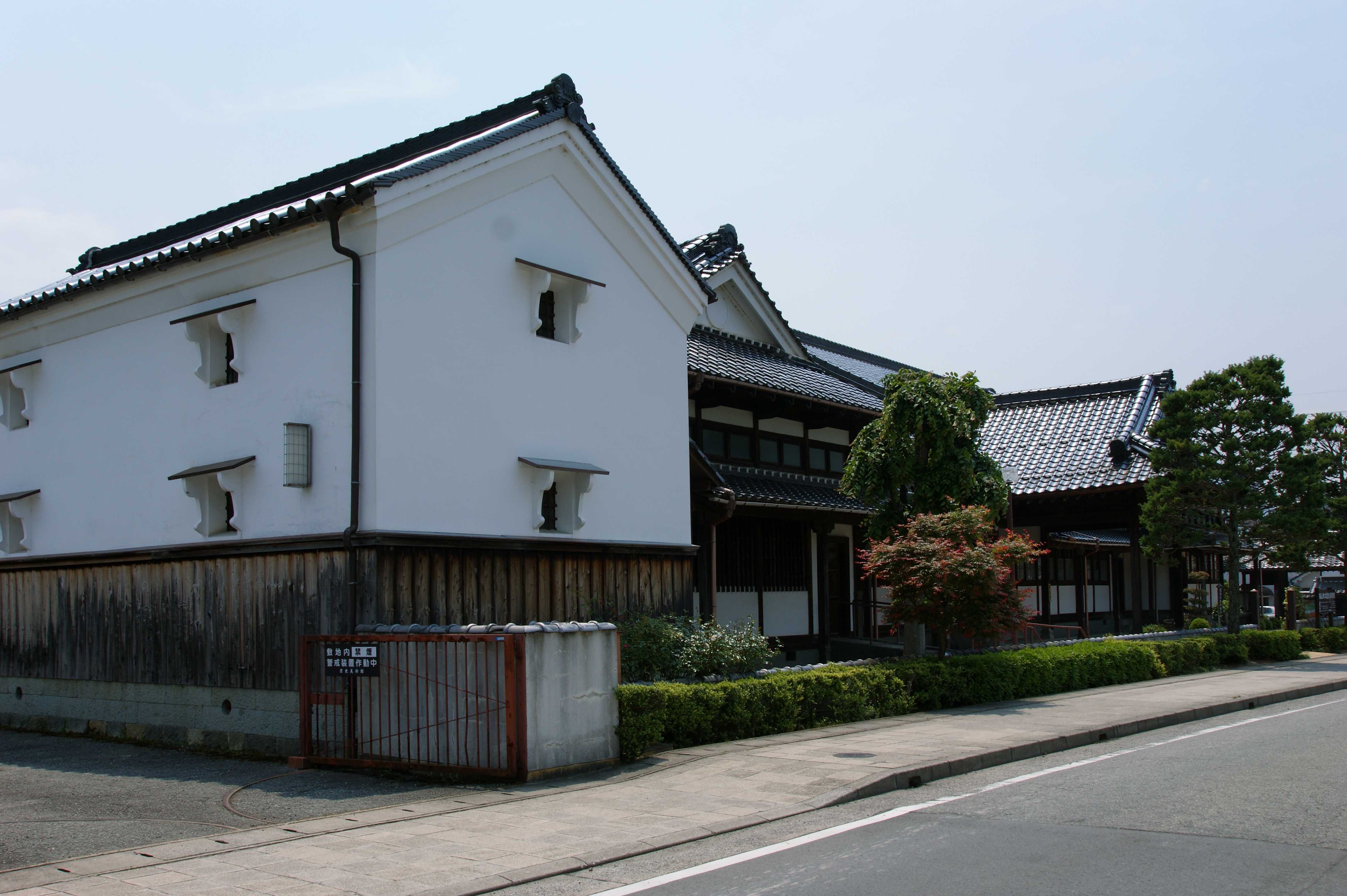 Sasayama Municipal Museum of History in Sasayama, Hyogo prefecture, Japan